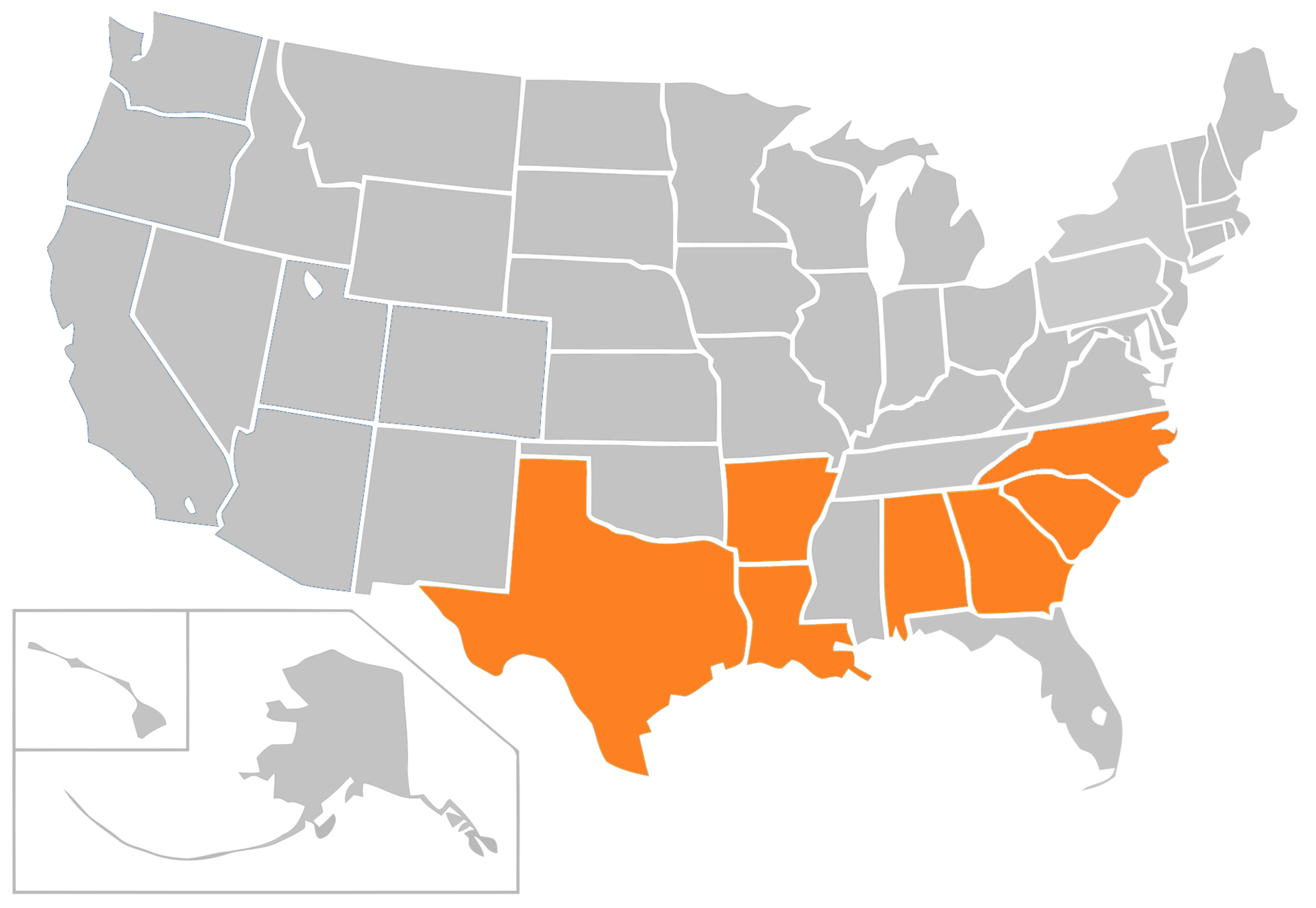 State locations of schools that are full members of the Sun Belt Conference